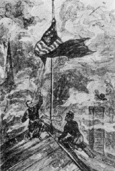 Lt. de Peyster raises the Stars and Stripes over the capitol of Richmond, Virginia for the first time since it joined the confederacy in 1861.